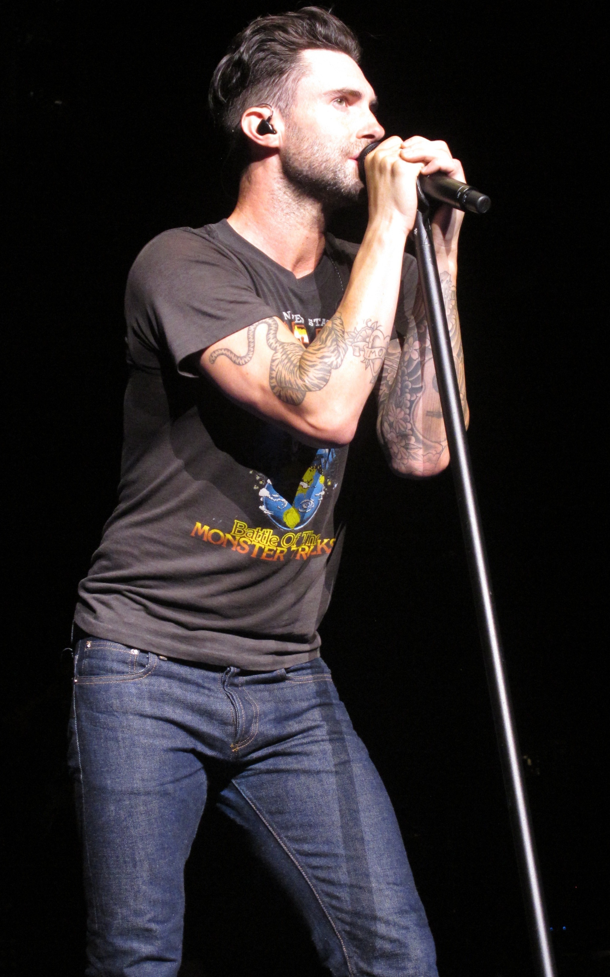 Adam Levine in 2013 August